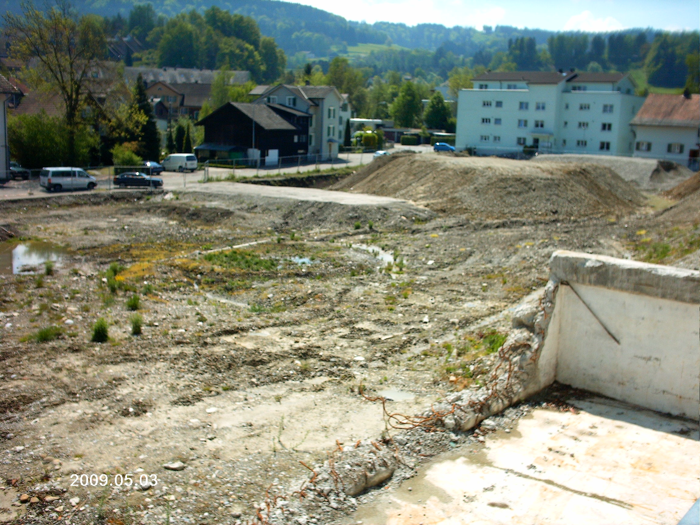 Works in the center of Oberuzwil after the removal of the factory of Benninger AG